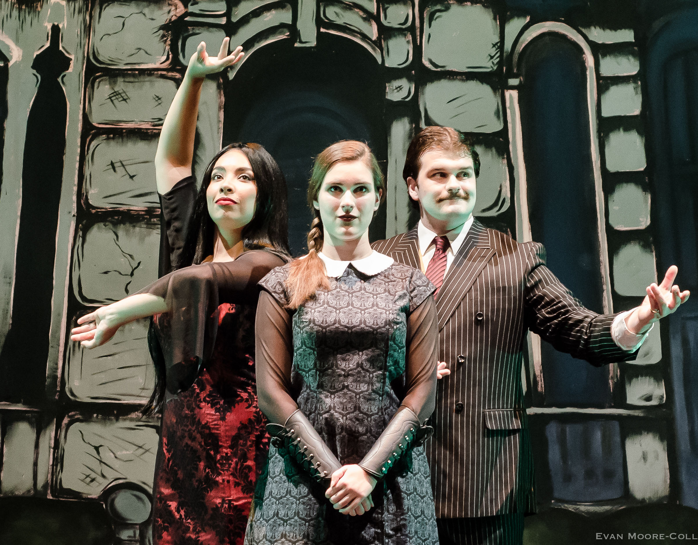 Morticia- Morgan Wood Wednesday- Leah Windahl Gomez- Jack Lebracque Photo by Evan Moore-Coll